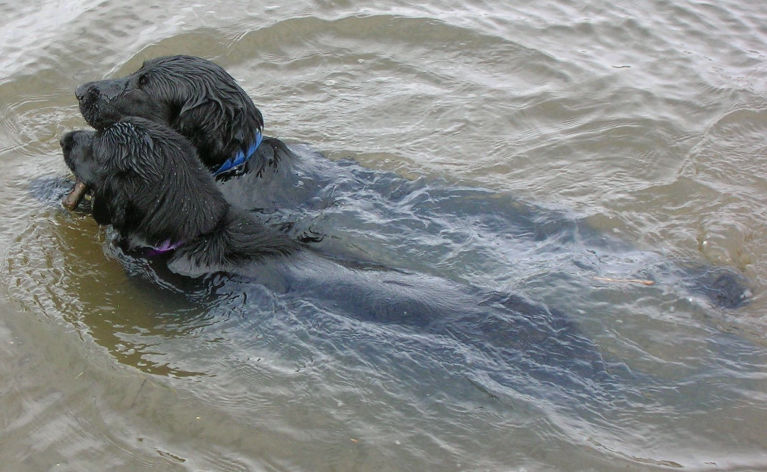 Flat-coated retrievers are keen to please. These two are retrieving the same stick